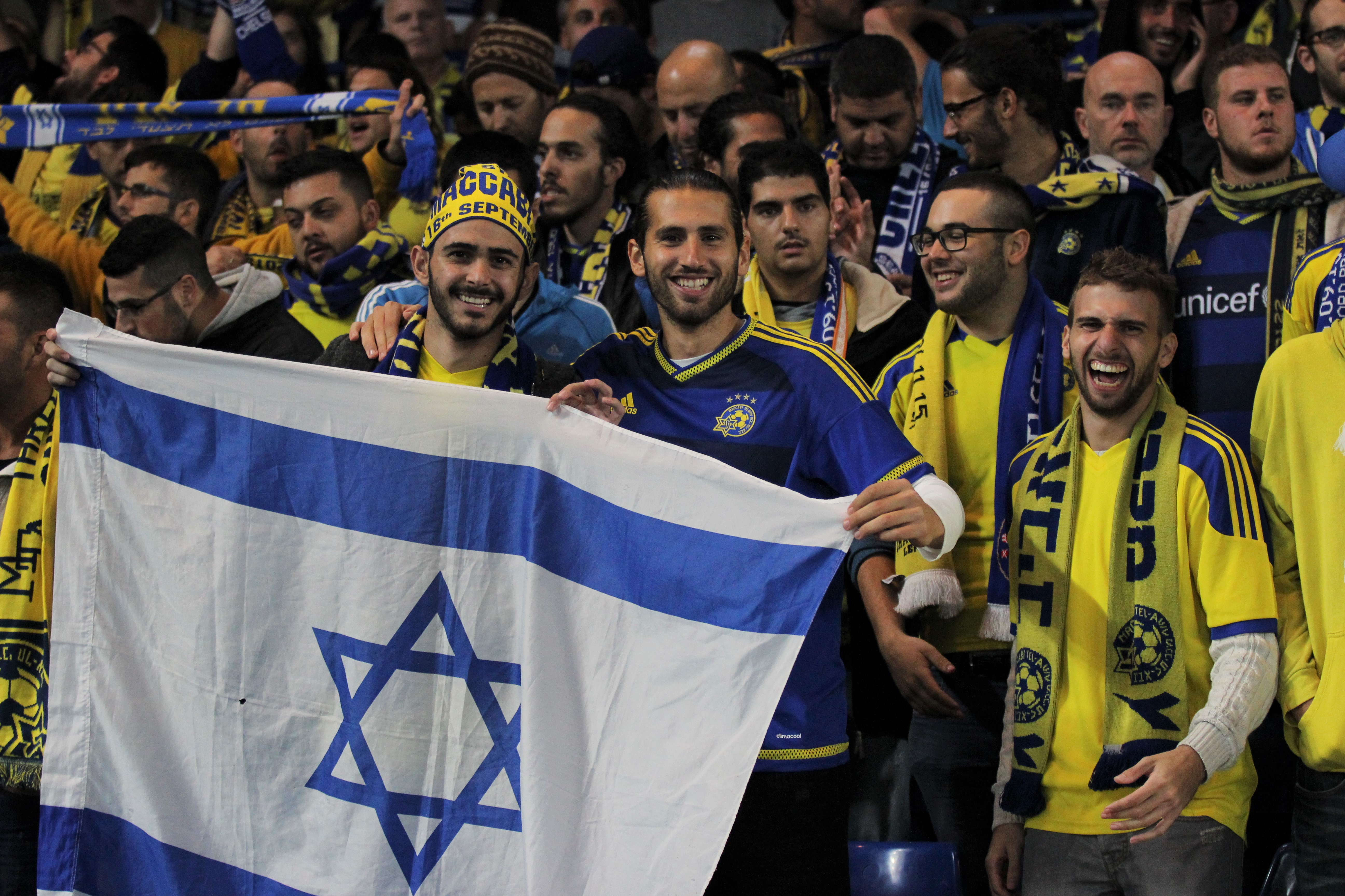 Travelling Maccabi Tel-Aviv fans before the Champions League game against Chelsea.